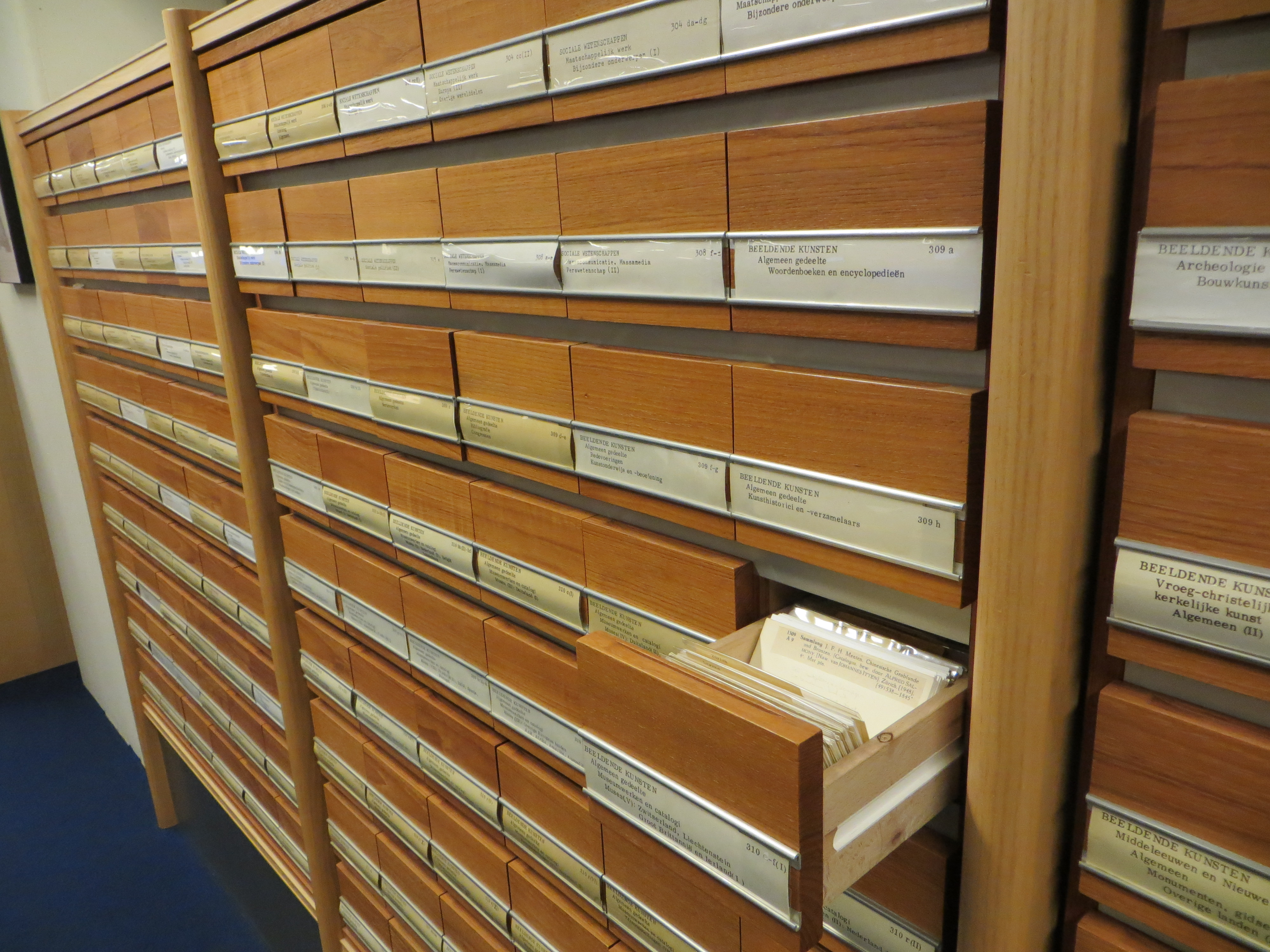 The National Library of the Netherlands, based in The Hague